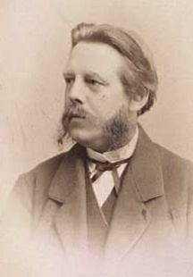 Danish organplayer and composer (1841-1911)